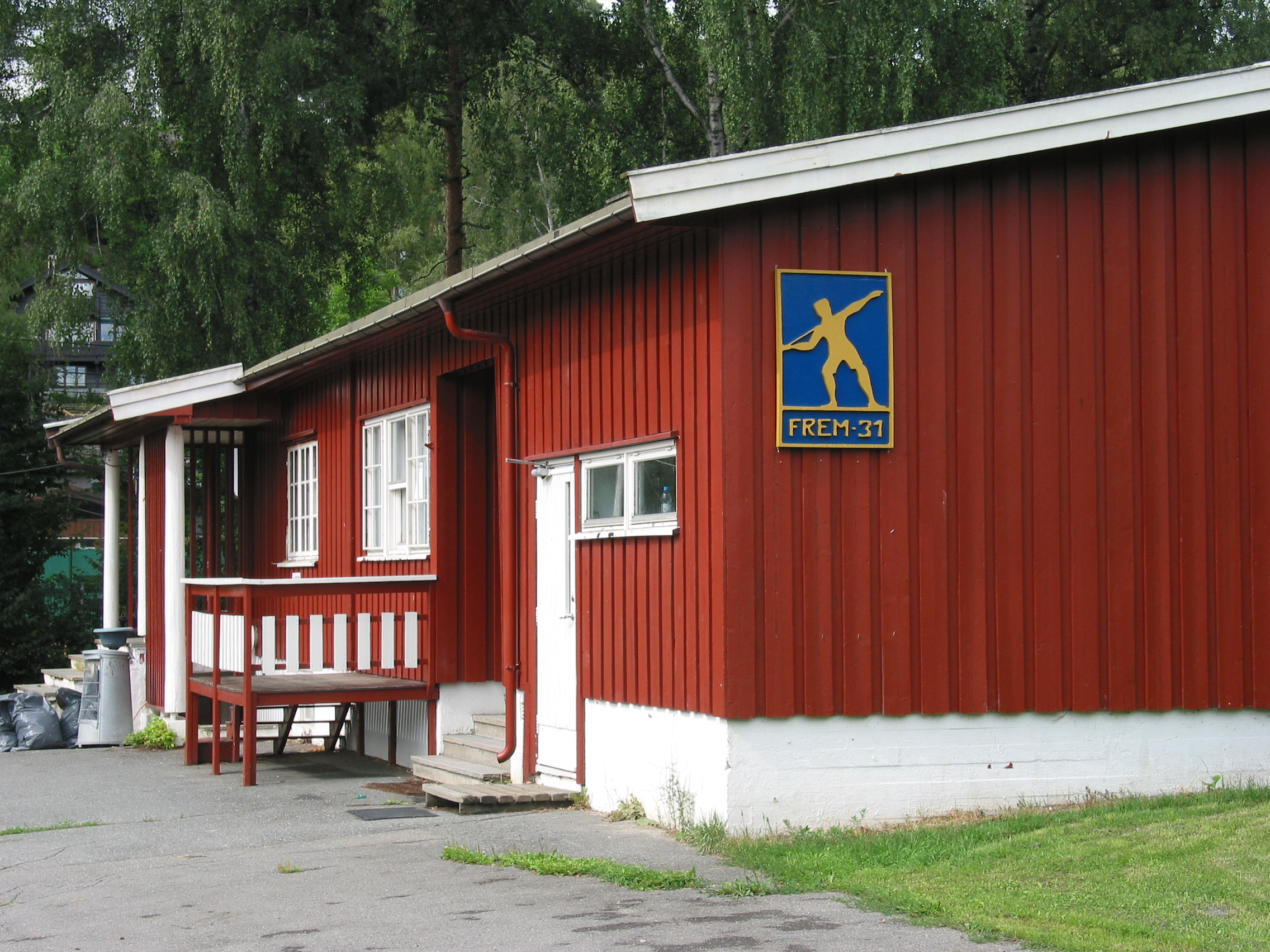 Clubroom of the sports club SK Frem-31, at Myra/Lysaker, Bærum, Norway.